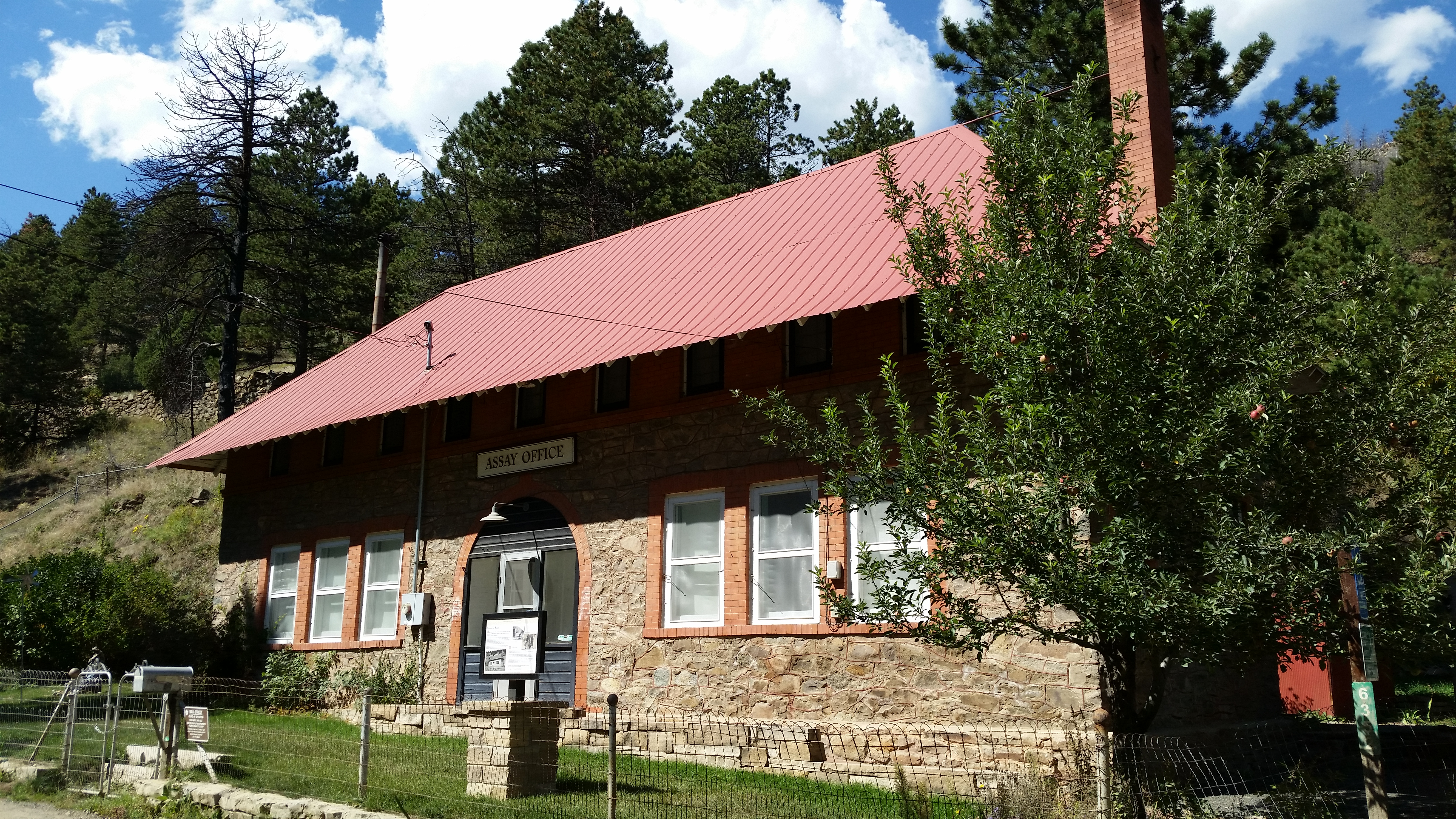 6352 Four Mile Canyon Dr. The Wall Street Assay Office is currently preserved as museum, open to the public on the 3rd Saturday of each month.